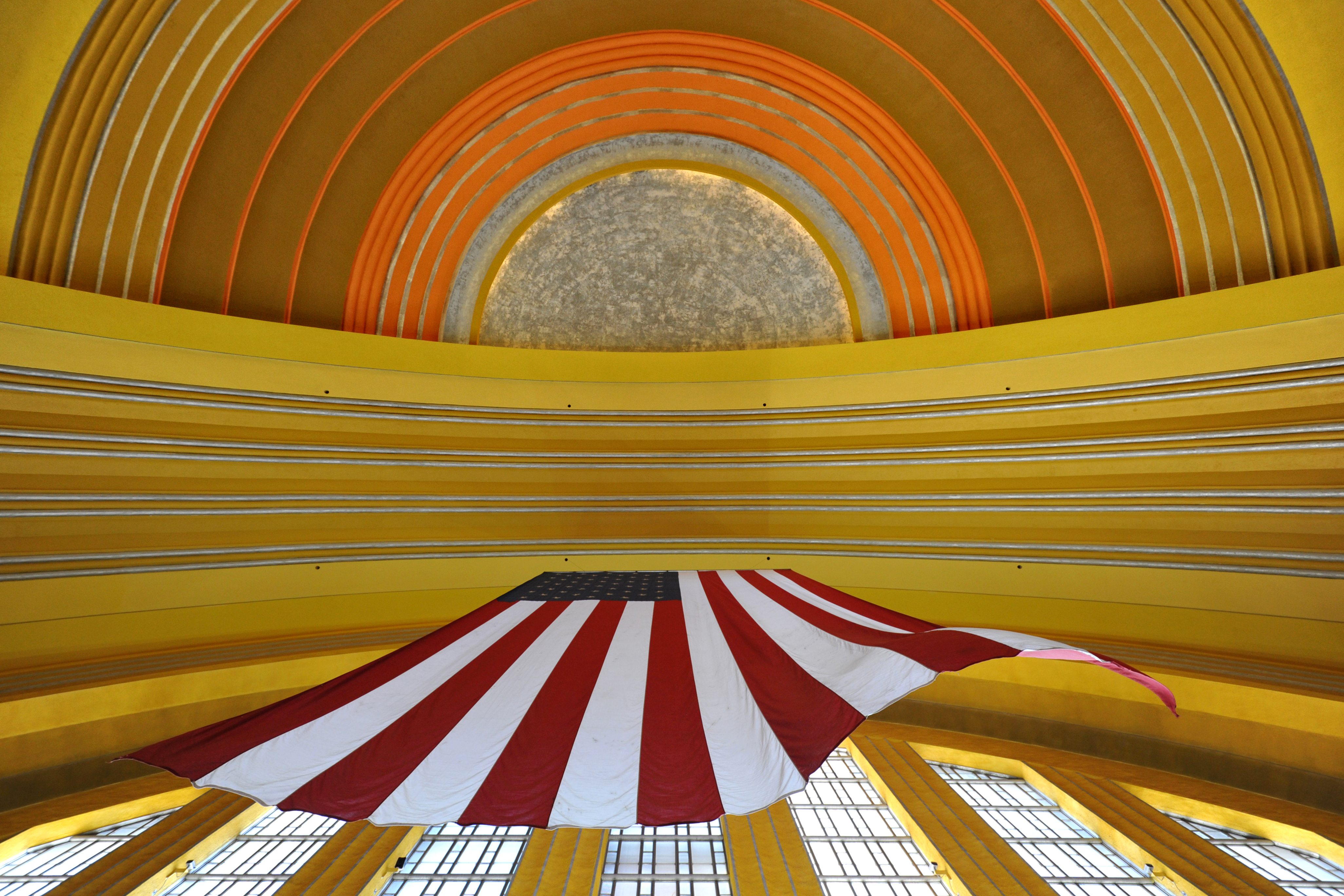 Ceiling of the Cincinnati Union Terminal in Cincinnati, Ohio.